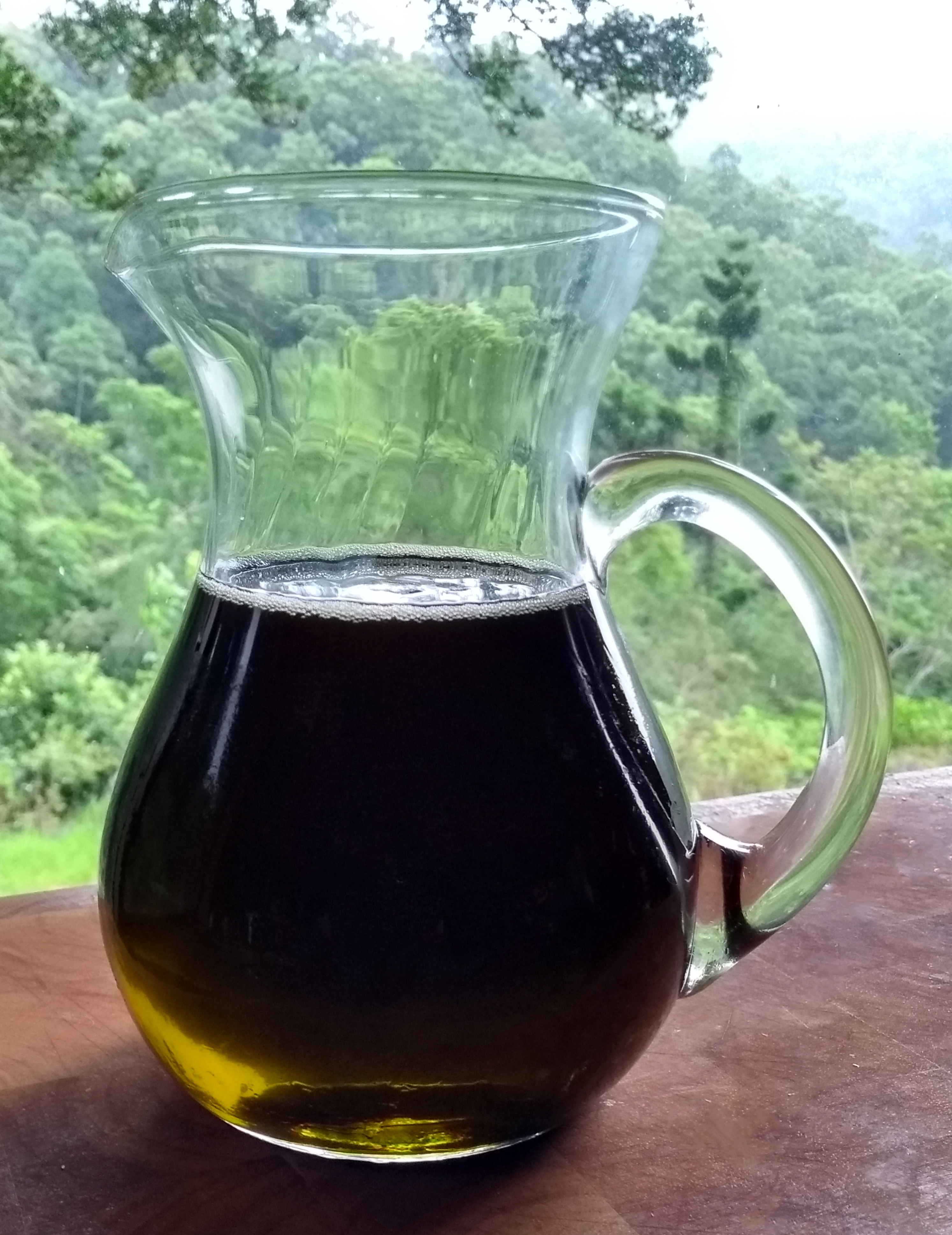 Organic Tasmanian Hemp Seed Oil